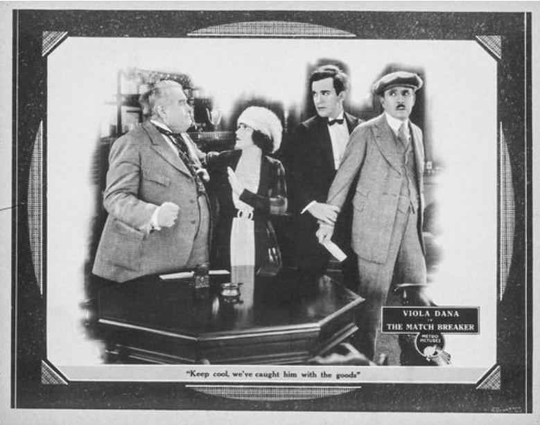 Lobby card for the American romantic comedy film The Match-Breaker (1921).